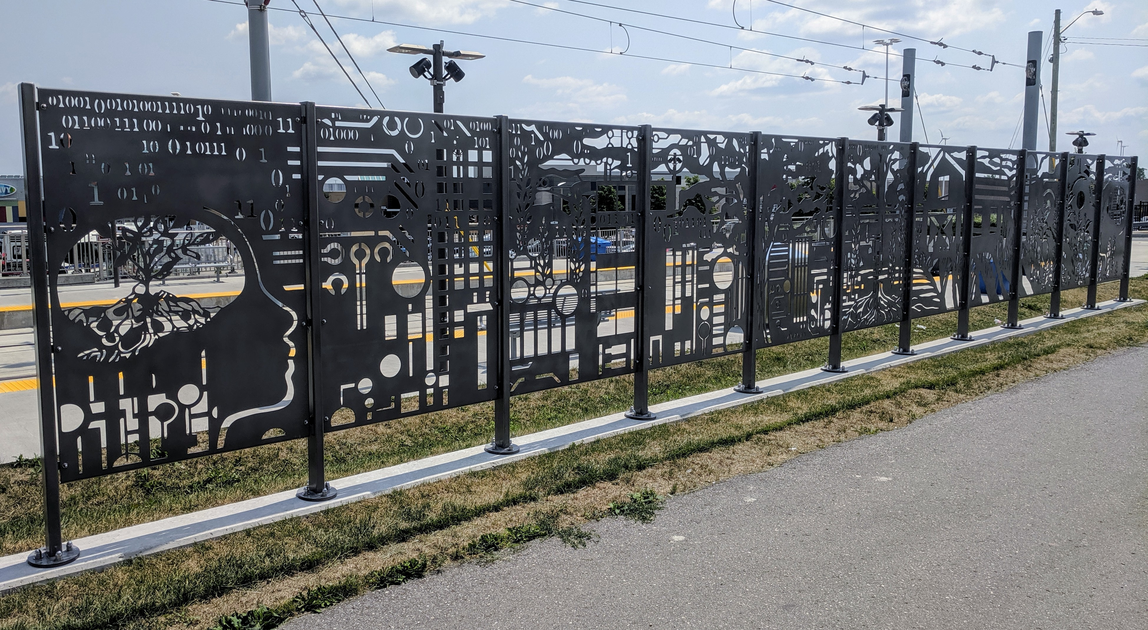 Continuum, artwork by Catherine Paleczny, completed 2019. King Street North, Waterloo, Ontario.